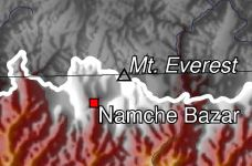 Topographik map showing the Mount Everest